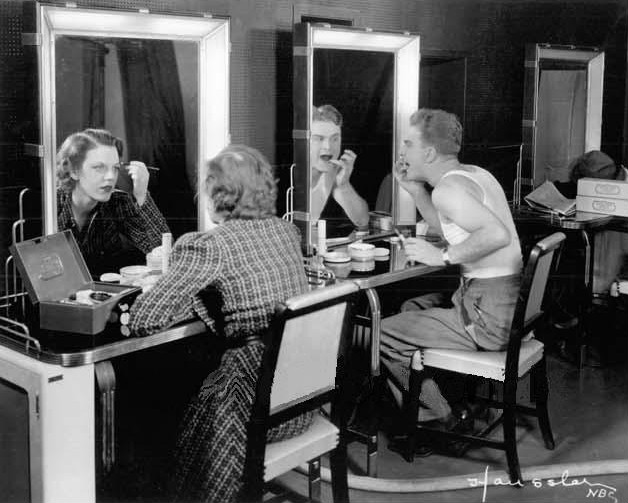 Photo of actor Eddie Albert and actress Grace Brandt applying make-up for the first television presentation of a play. The play, The Love Nest, was also written and produced by Albert. The telecast took place on 6 November 1936 in NBC's Studio 3H in Radio City. The Columbia History of American Television, page 53 Gary R. Edgerton.